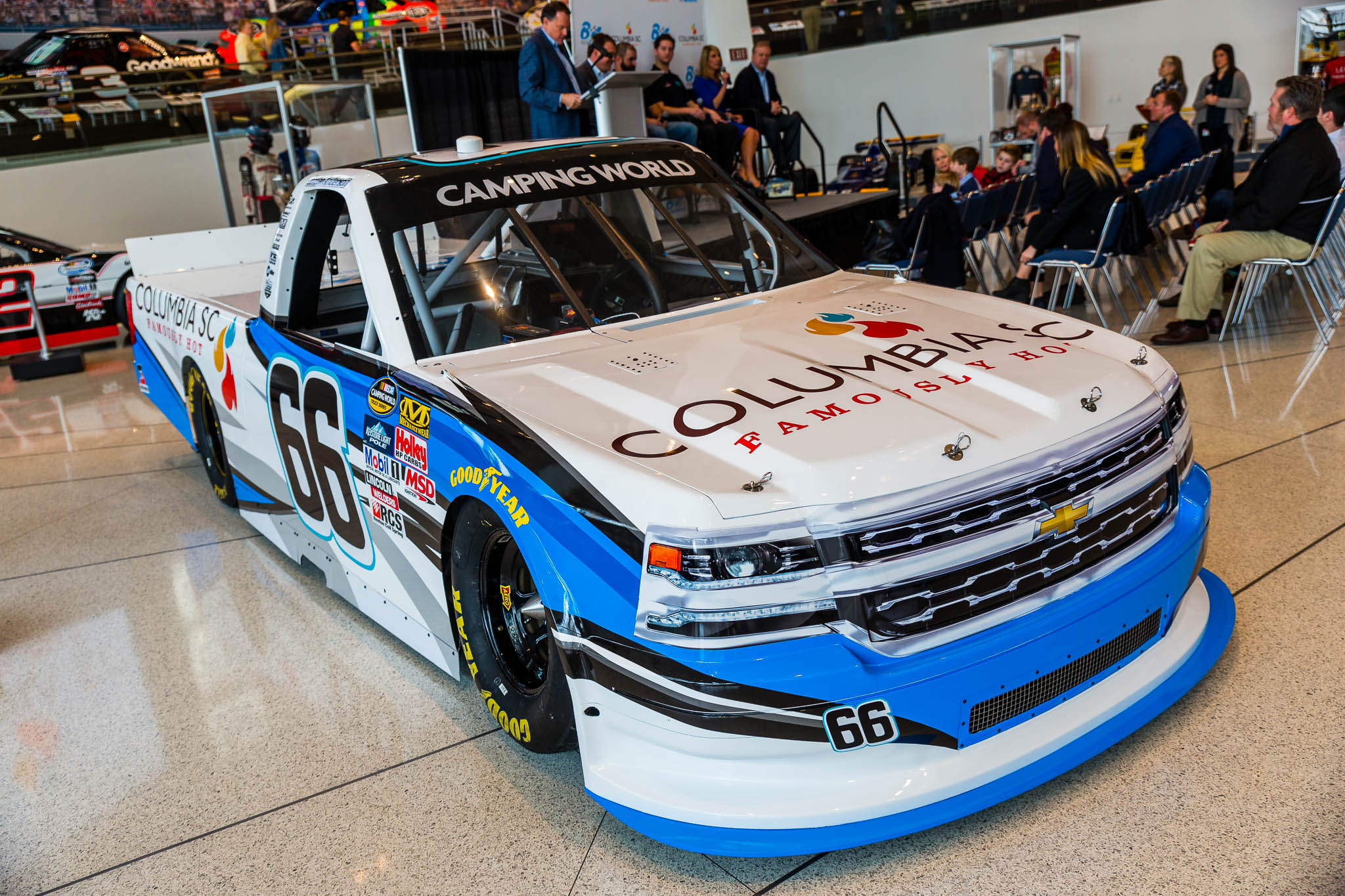 Jordan Anderson's #66 Columbia, SC - Famously Hot Chevrolet Silverado in the NASCAR Camping World Truck Series.